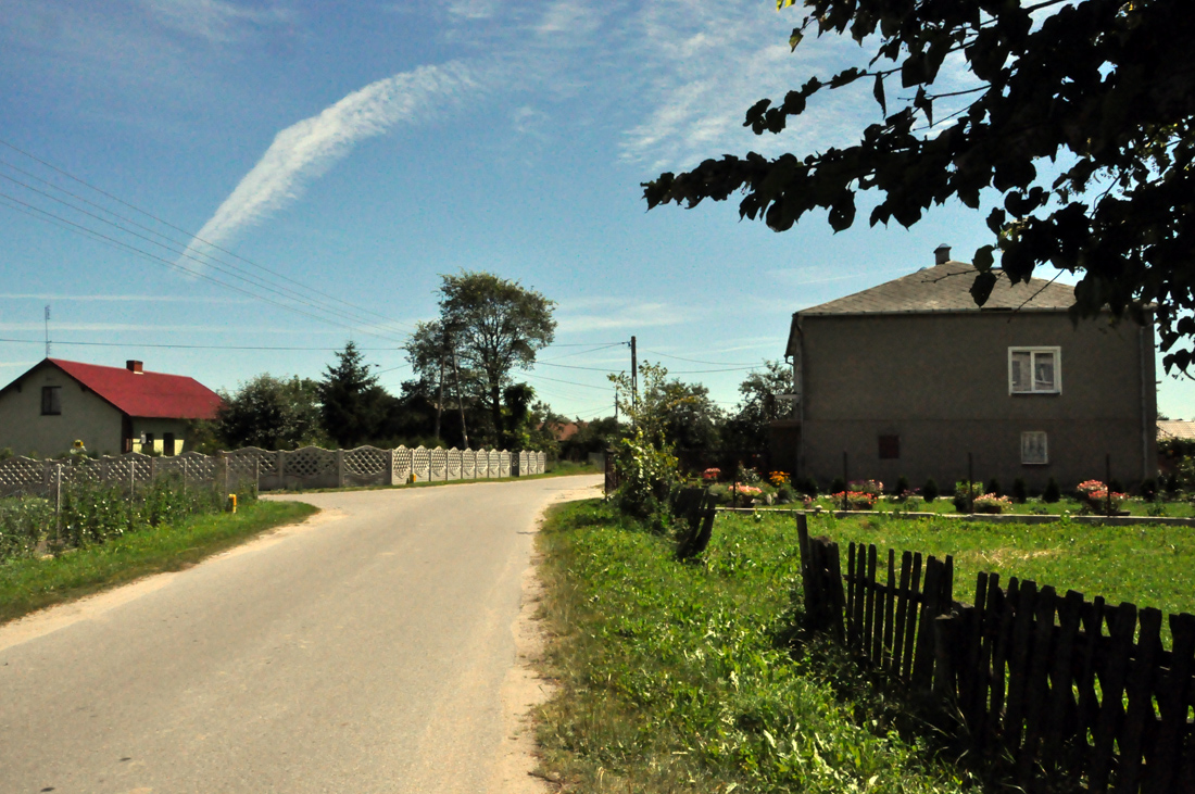 The road in the village